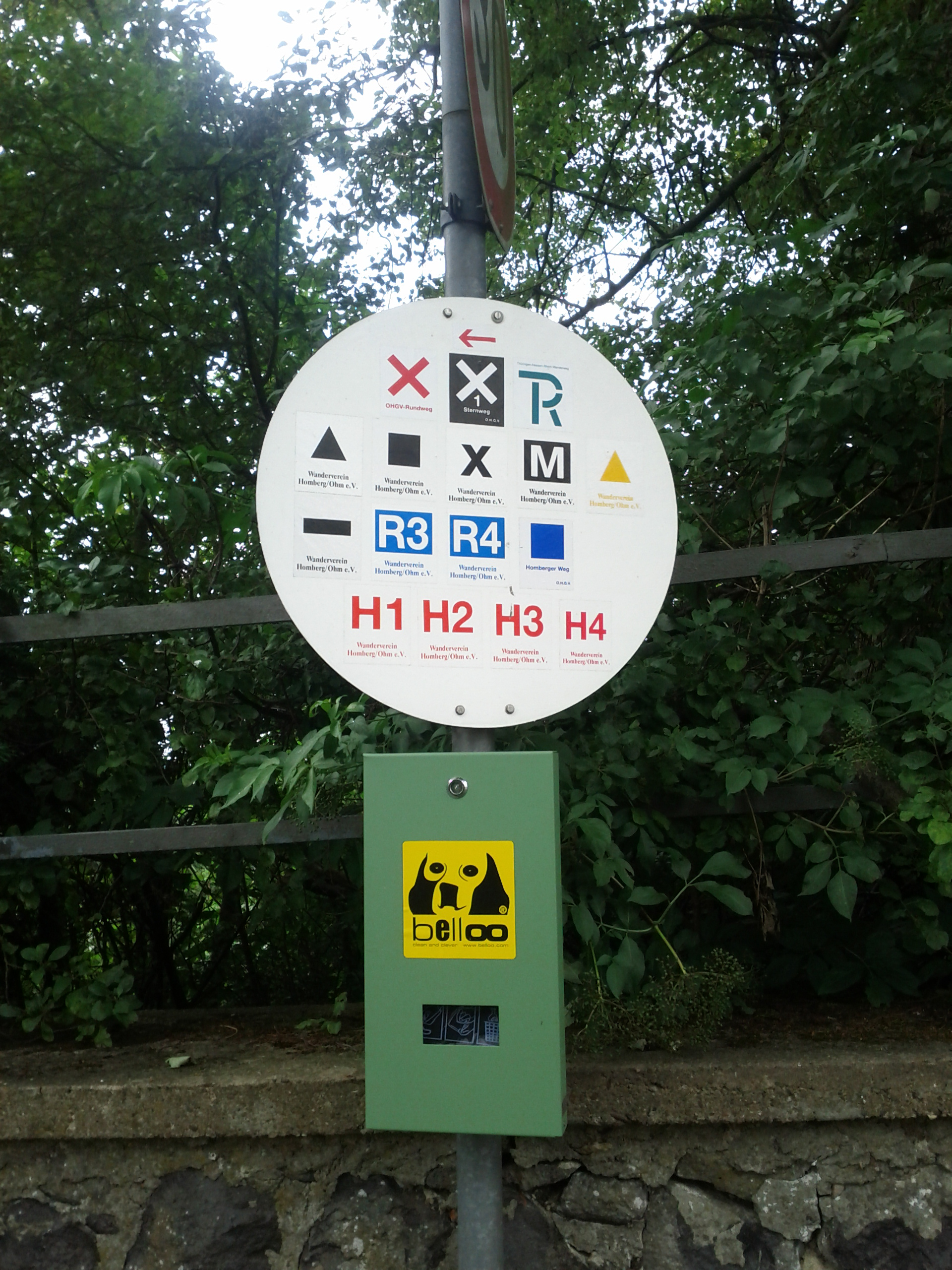 Signpost / trail blazing / Oberhessischer Gebirgsverein (OHGV) / Germany